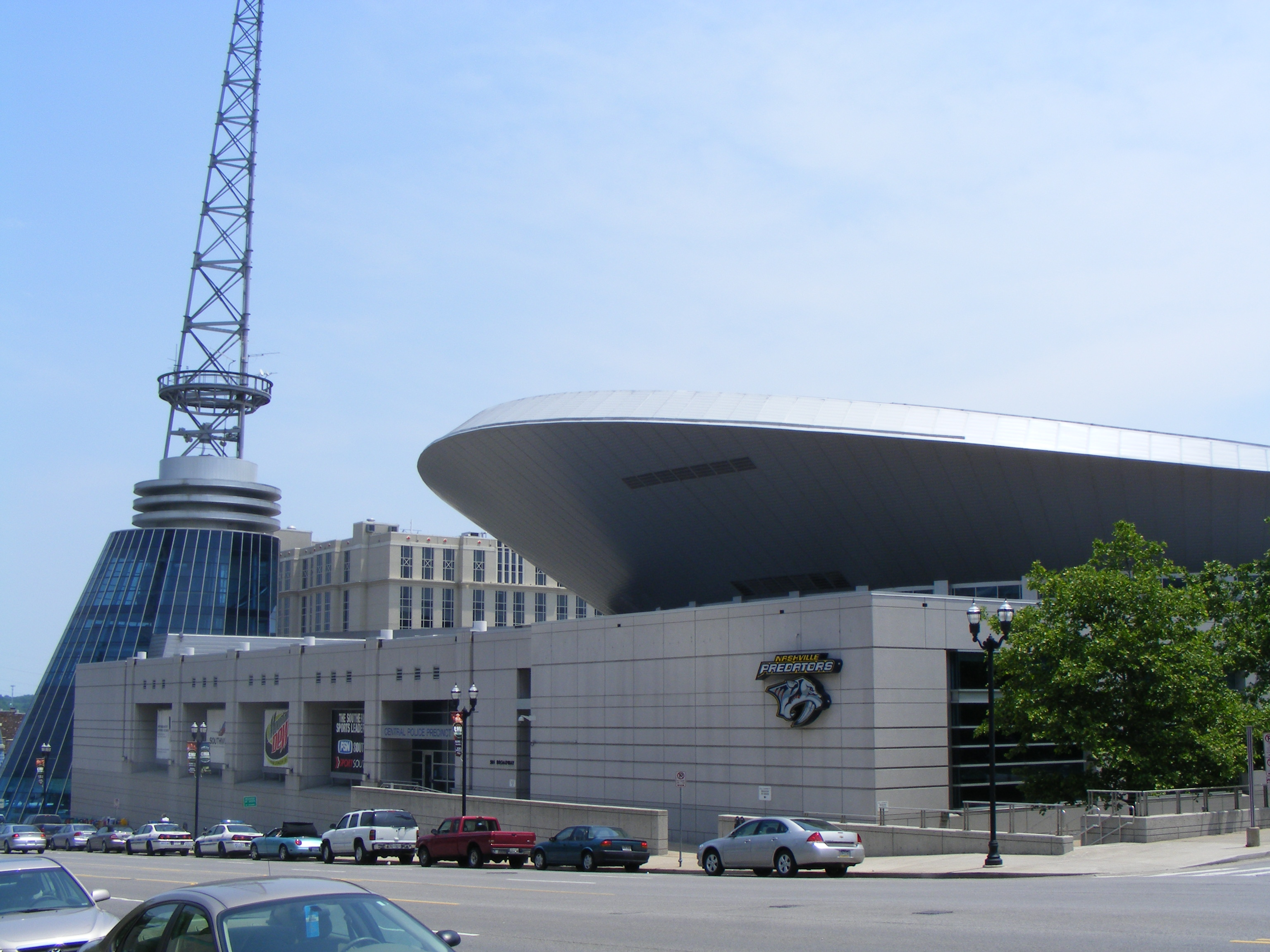 Sommet Center in Nashville, Tennessee.